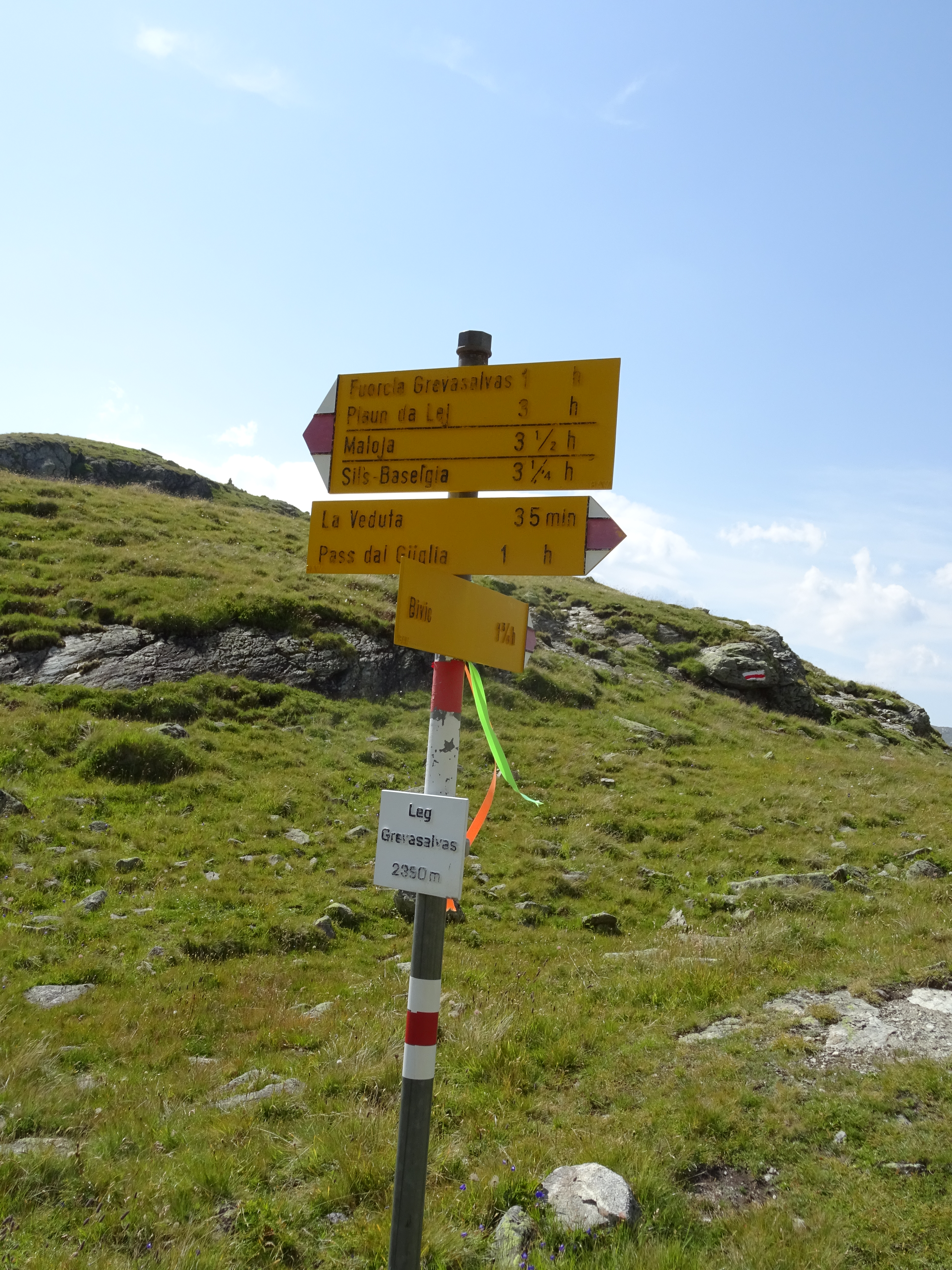 Fingerpost near Leg Grevasalvas (Surses, Grison, Switzerland